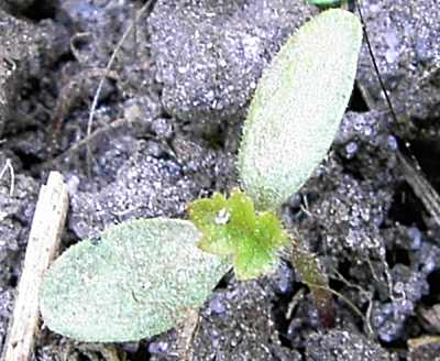 Dicotyledon